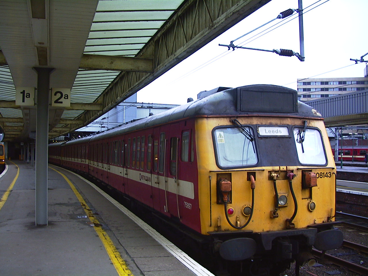 British Rail Class 308 at Leeds 1996